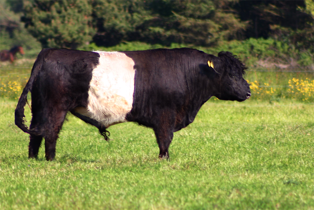 Belted galloway, bull from Fanø, Denmark.